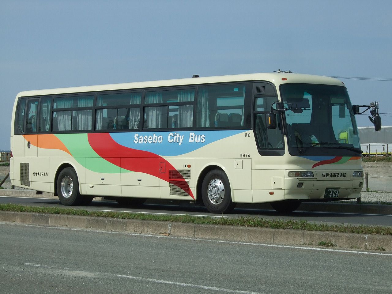 佐世保市営バスの貸切車両 / A chartered bus of Sasebo City Bus